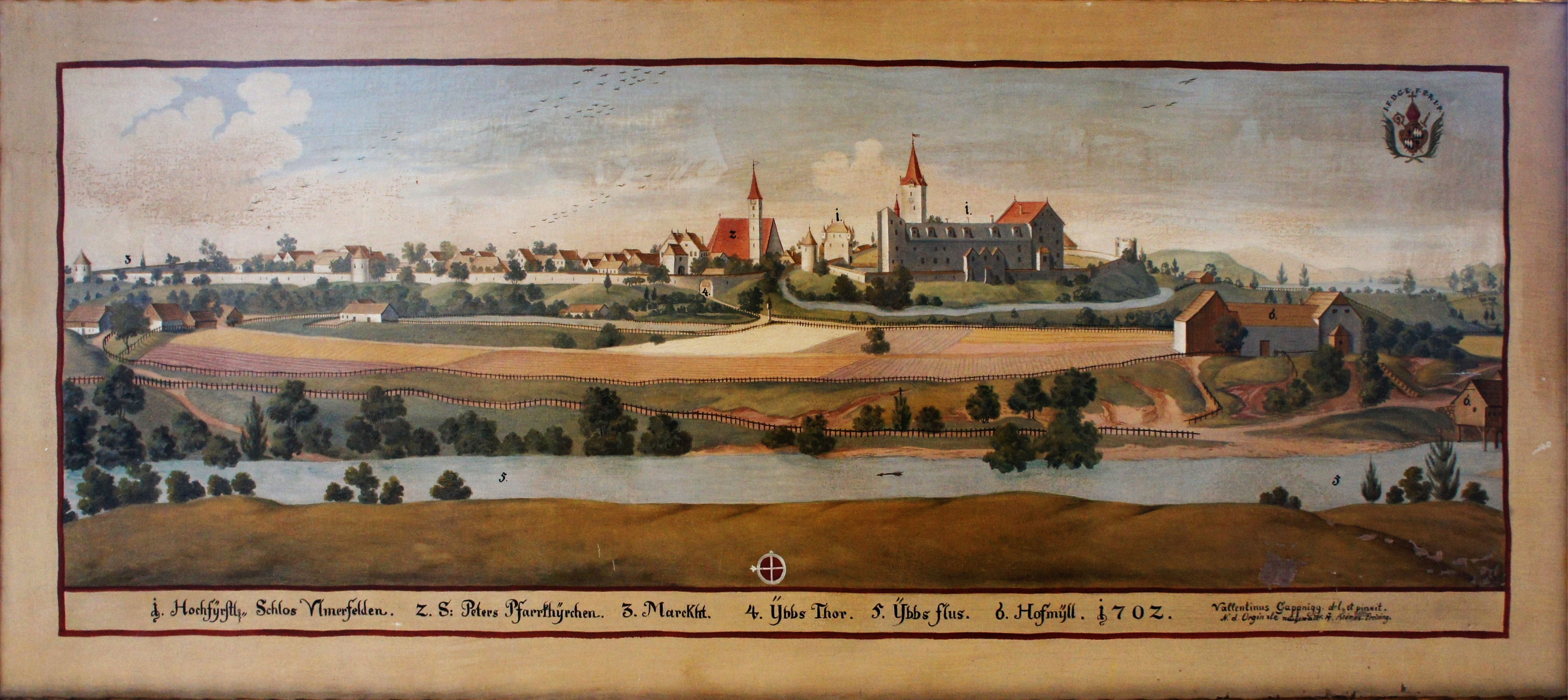 View of Ulmerfeld, Lower Austria. Part of a series of 32 paintings executed by Valentin Gappnigg between 1698 and 1702. Gappnigg had been commissioned by the prince-bishop of Freising, Johann Franz Eckher von Kapfing und Liechteneck, to paint views of the various possessions of the prince-bishopric. While the core territories of Freising were located in Bavaria, it also included several far-flung enclaves located inside Tyrol, Styria, Carinthia, Lower Austria and Carniola (now Slovenia).